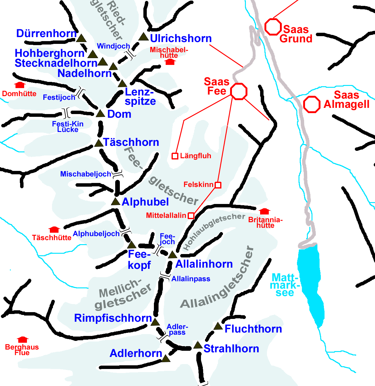 Map of Mischabel and Allalin group, Valais, Switzerland